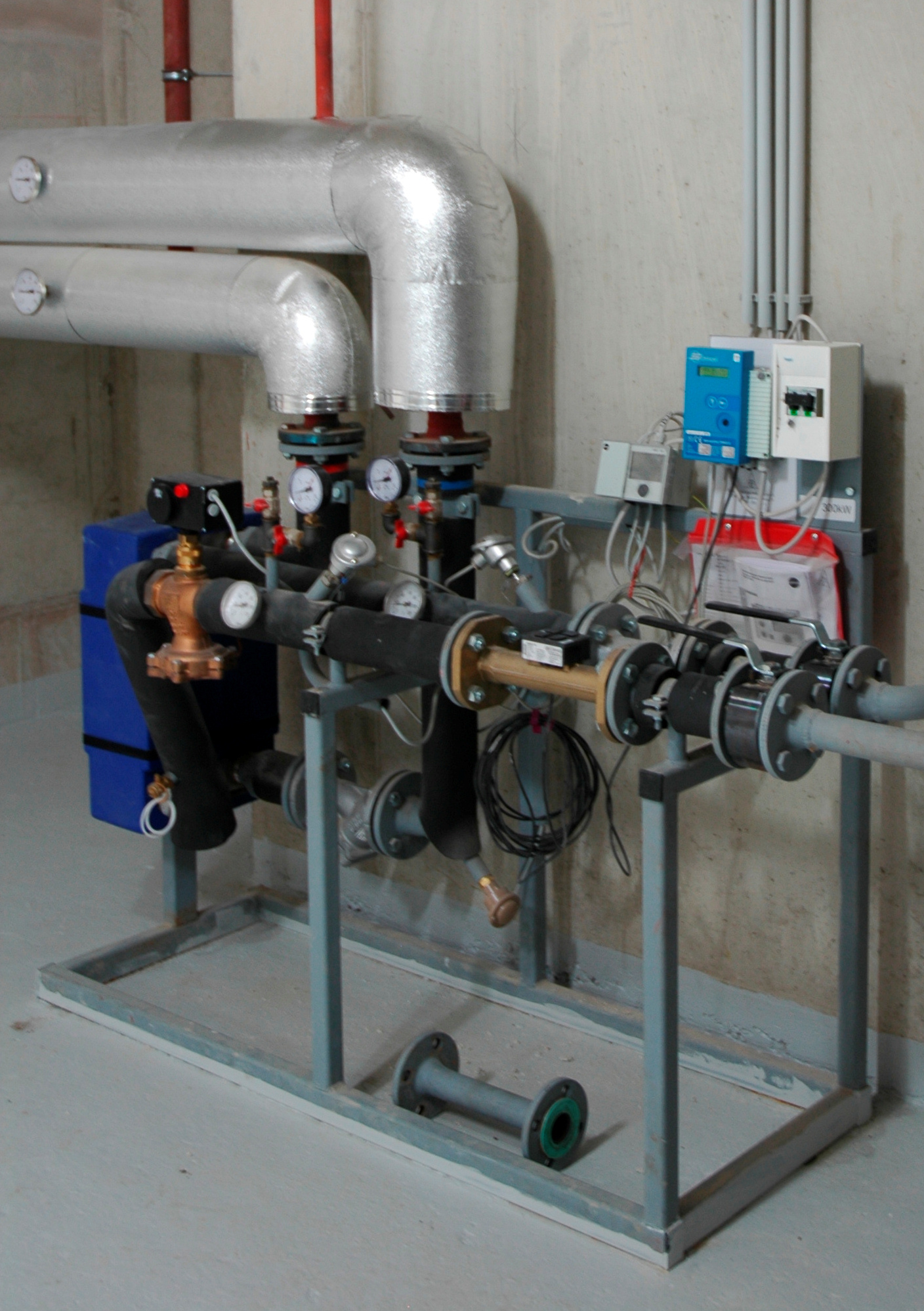 district heat transfer station 300 kW power owned by EVN Wärme in lower austria